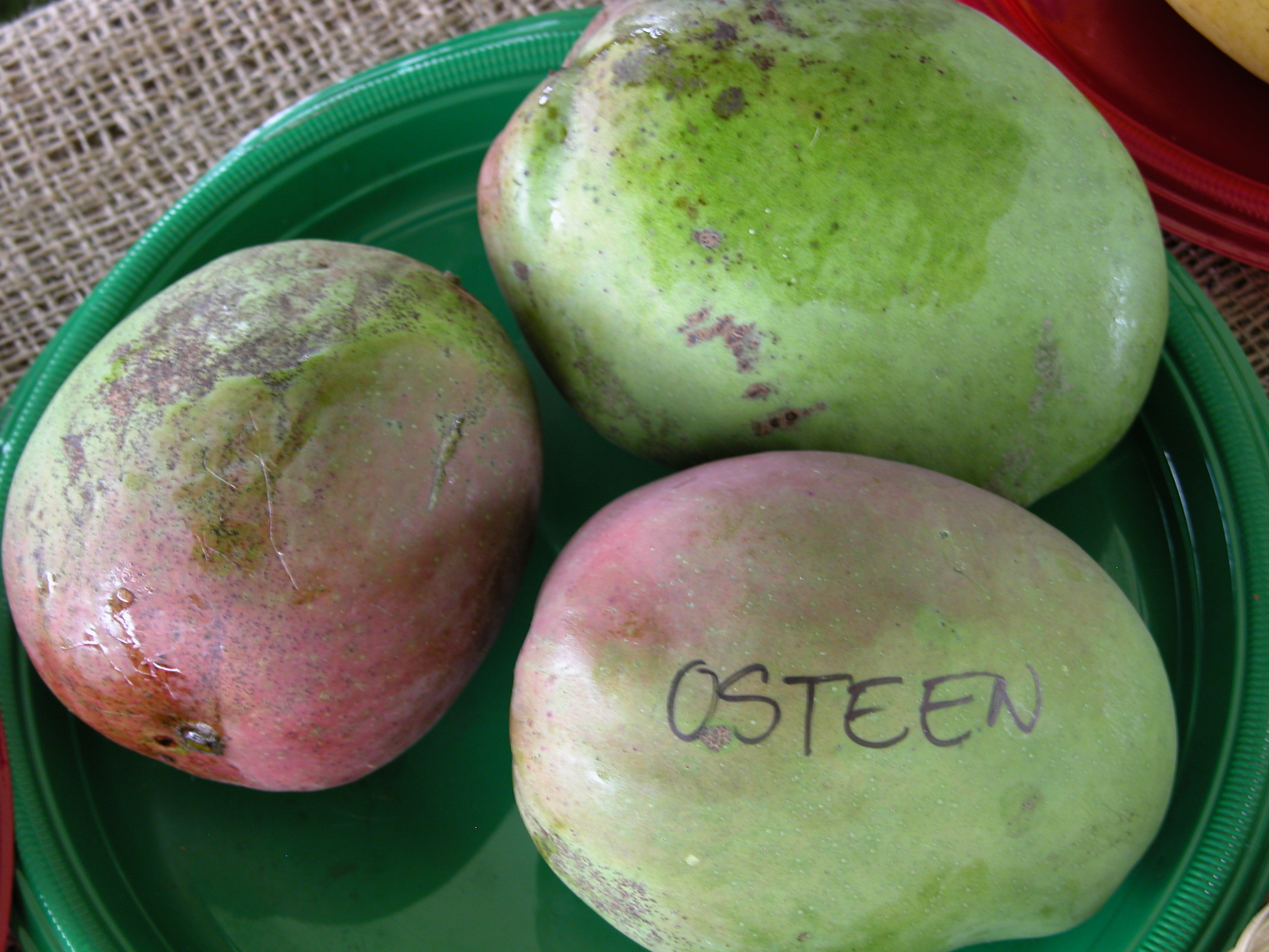 Display in Fruit & Spice Park, Homestead, Florida